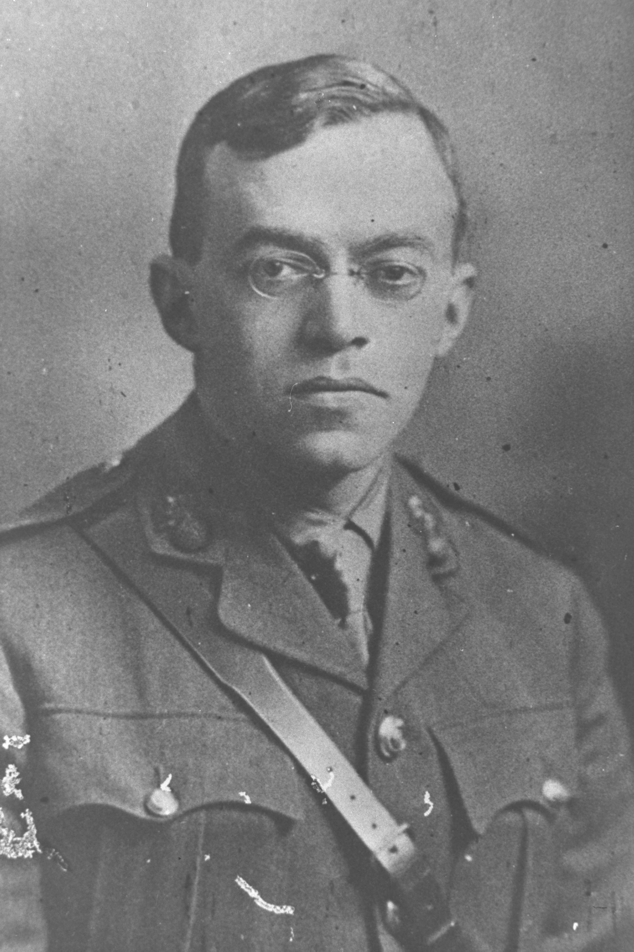 ZEEV JABOTINSKY IN OFFICERS UNIFORM DURING WORLD WAR NO.1. פורטרט, זאב ז'בוטינסקי במדים, בזמן מלחמת העולם הראשונה.